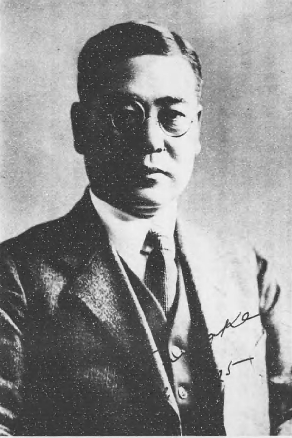 Tanaka Tokujiro